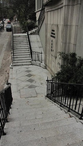 portrait of staircase of magistracy